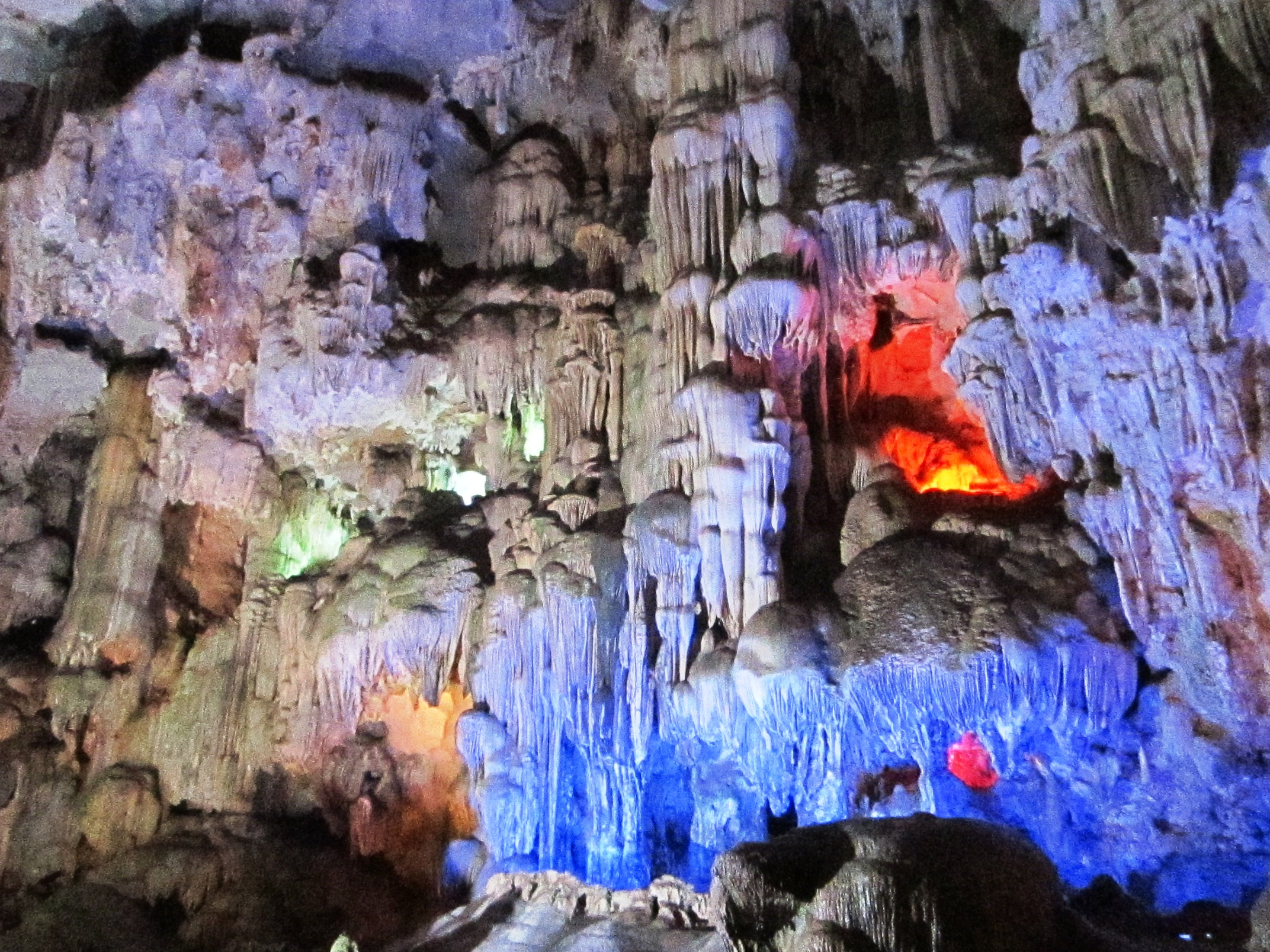 Inside Thien Chung caves (grotto) 2013